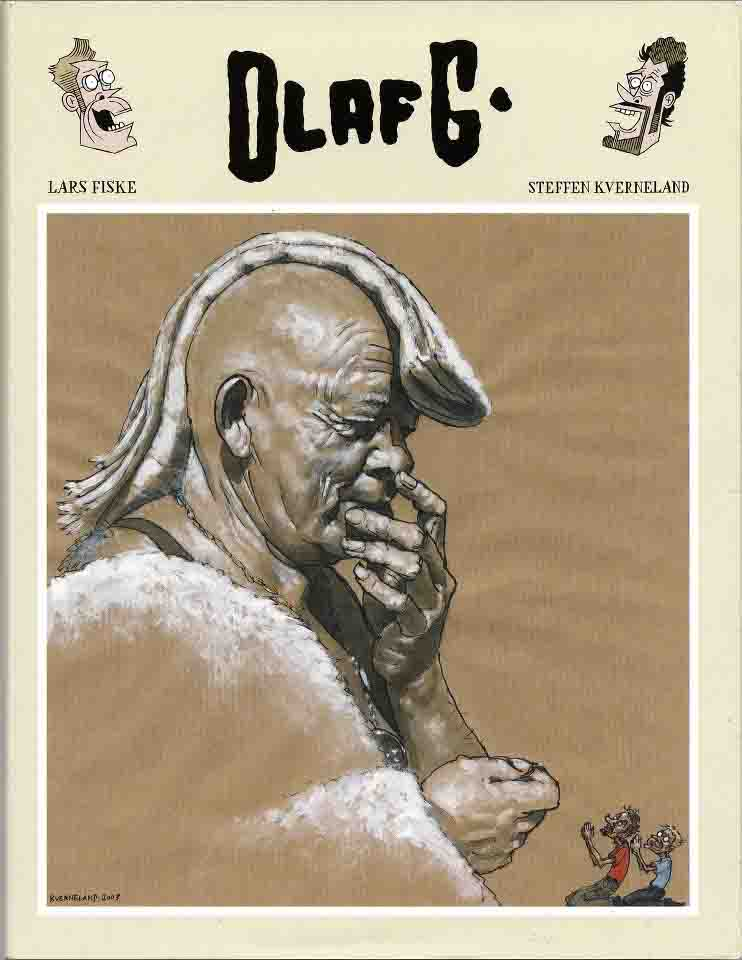 front cover of the comics album Olaf G, about the Norwegian artist Olaf Gulbransson; by the Norwegian comics artists Steffen Kverneland and Lars Fiske